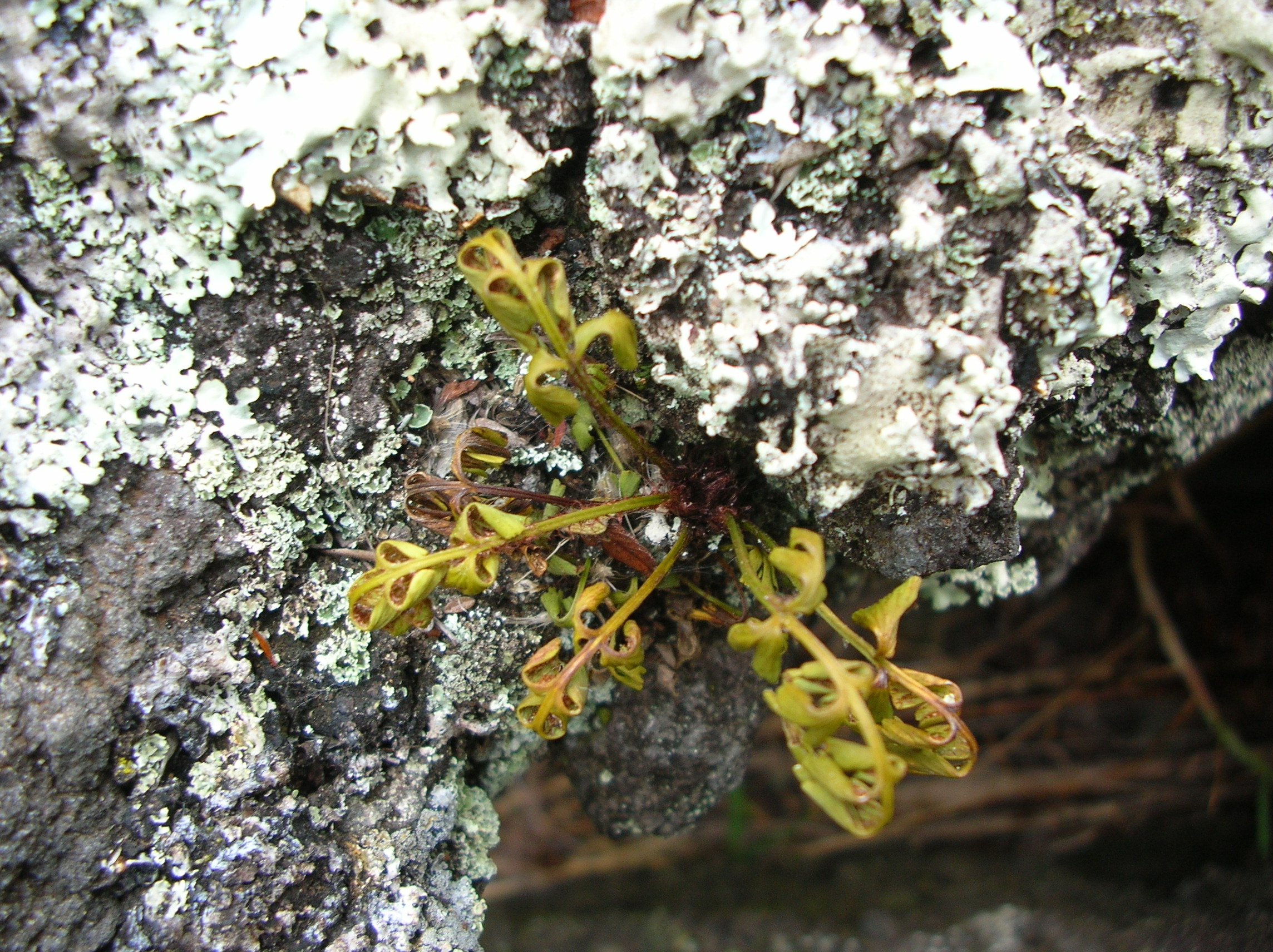 Asplenium aethiopicum (habit). Location: Maui, Auwahi